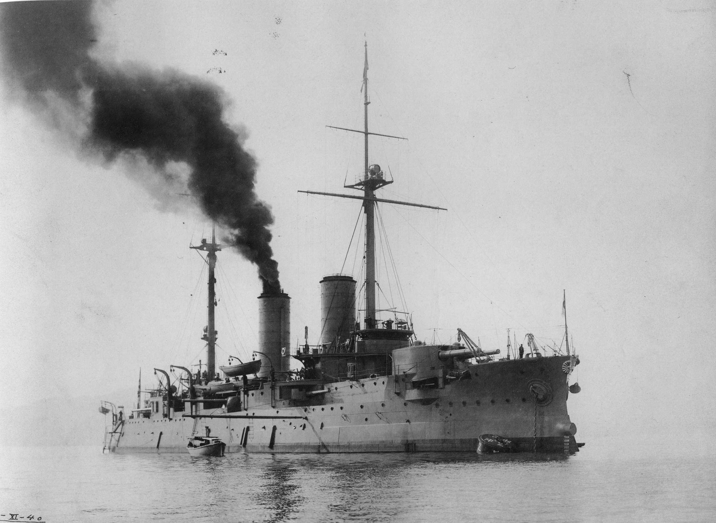 Japanese battleship Iwami (ex-Russian Orel)